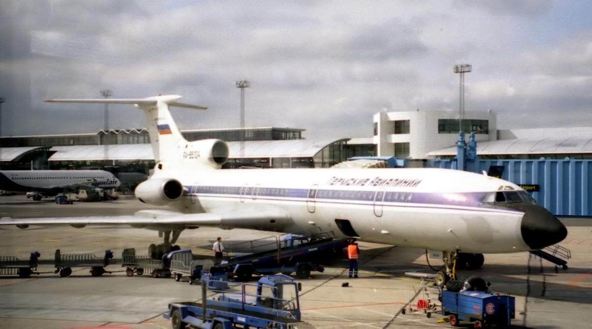 Perm Airlines Tu-154 at Kastrup Airport